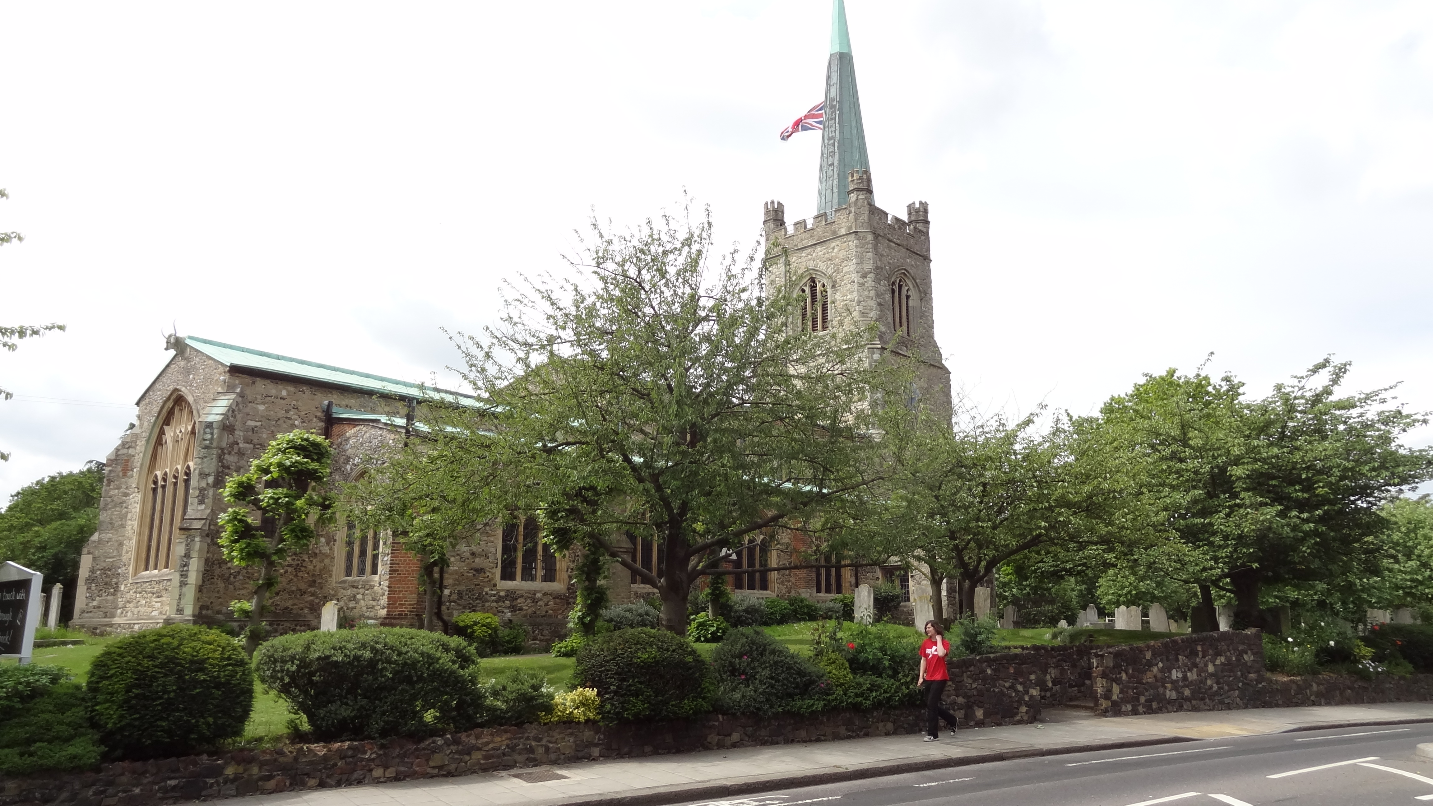 St Andrew's Church Hornchurch, London, location of the furthest that any ice sheet in Britain reached, during the Anglian glaciation 450,000 years ago